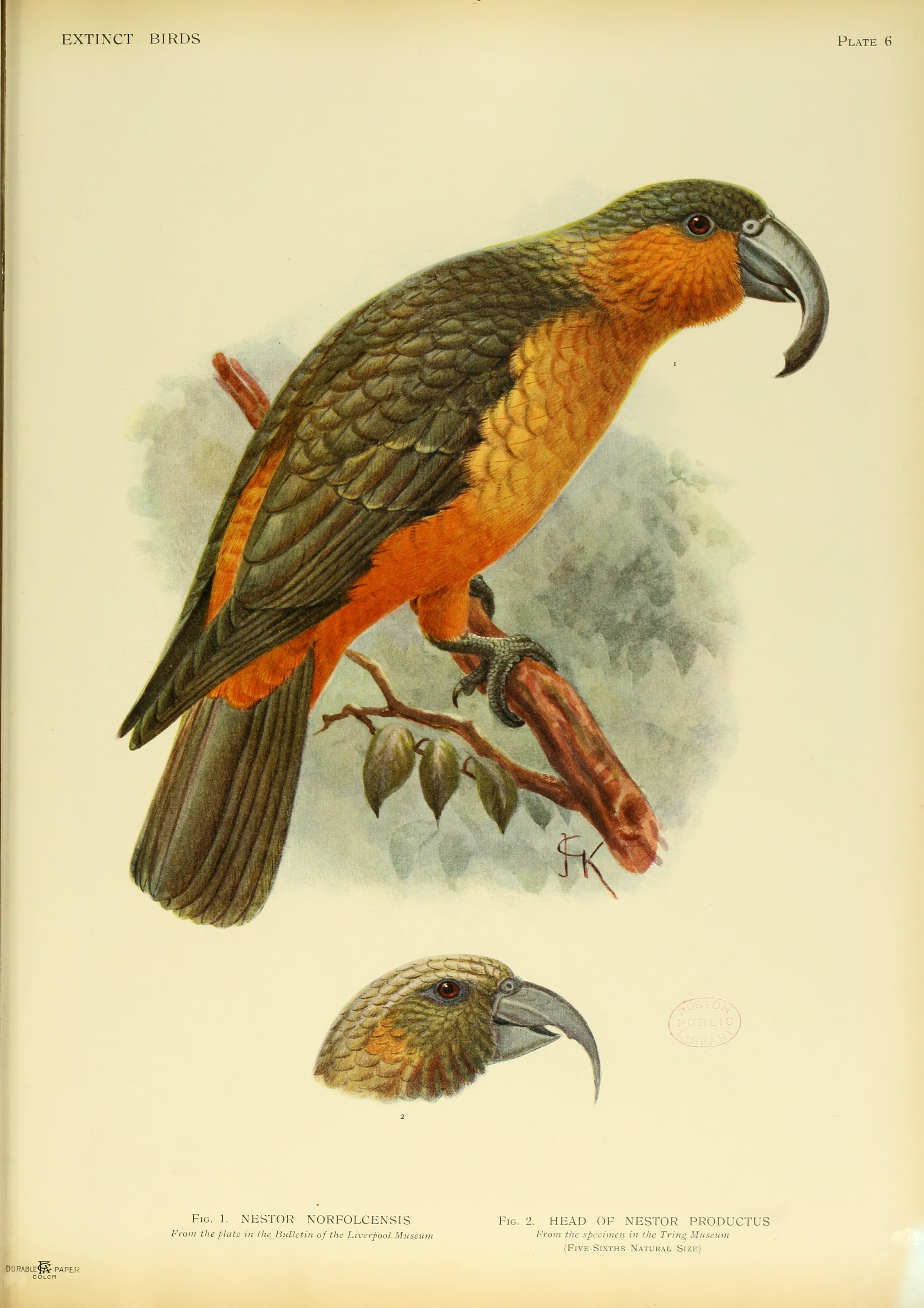 The Norfolk Island Kākā (Nestor productus) is an extinct species of large parrot with a prominent beak. Its plumage was olive-brown, with an orange throat and straw-coloured breast. Plate 6 shows "Nestor norfolcensis" and the head of "Nestor productus". The former is nowadays regarded as a synonym of the latter. From the plate in the Bulletin of the Liverpool Museum. From the specimen in the Tring Museum.